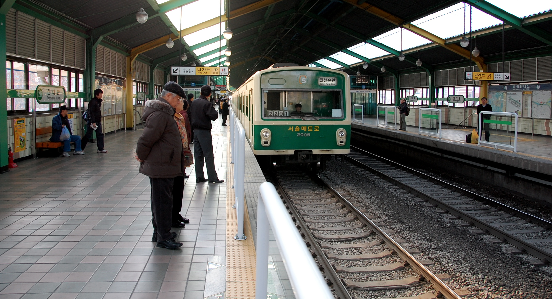 Public telephone at night in Seoul